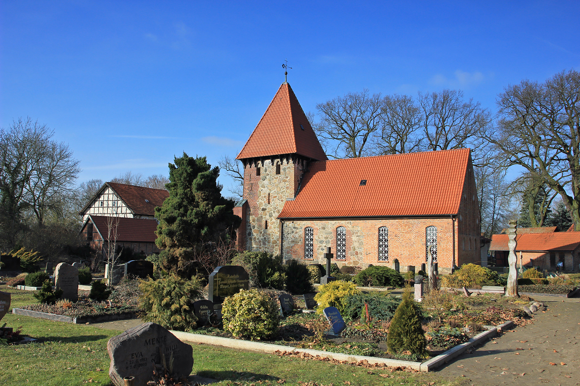 Church and cemetery (churchyard) of the small village Satemin (district Lüchow-Dannenberg, northern Germany).